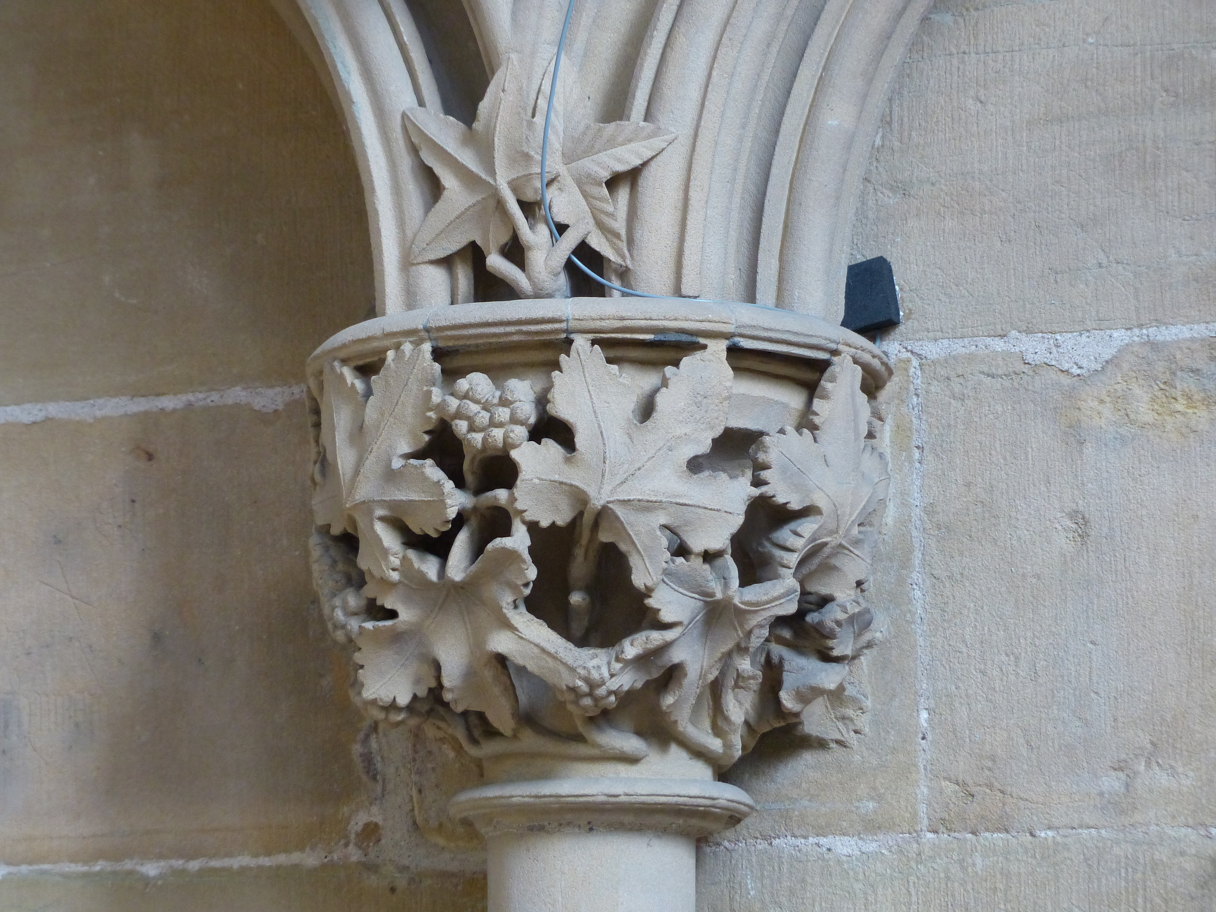 Capital of the Chapter House of Southwell Minster. Numbering is according to the scheme presented in: Seward, Albert Charles (1935). "The Foliage, Flowers and Fruit of Southwell Chapter House". Proceedings of the Cambridge Antiquarian Society 35: 1-32.